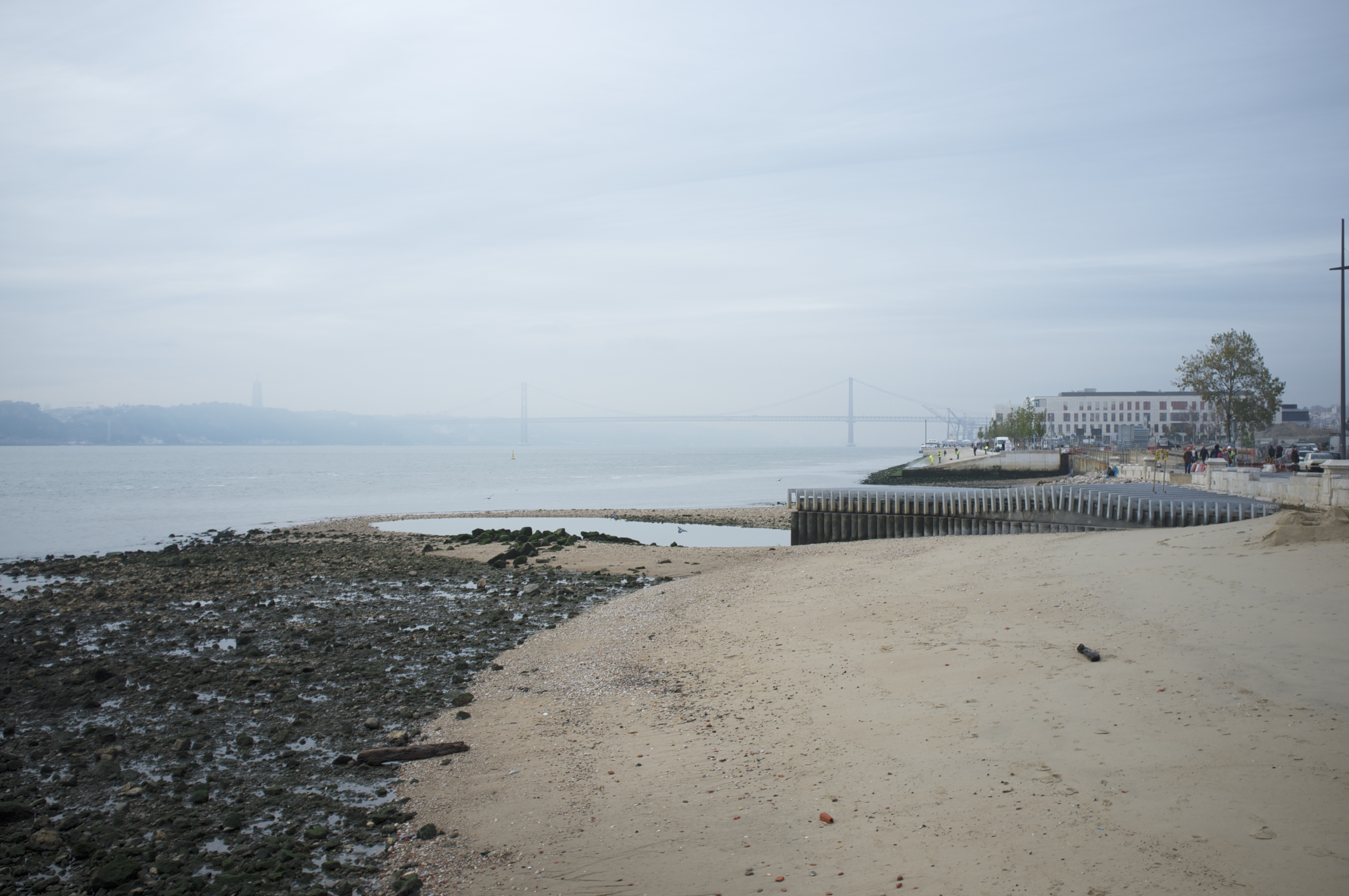 Lisbon